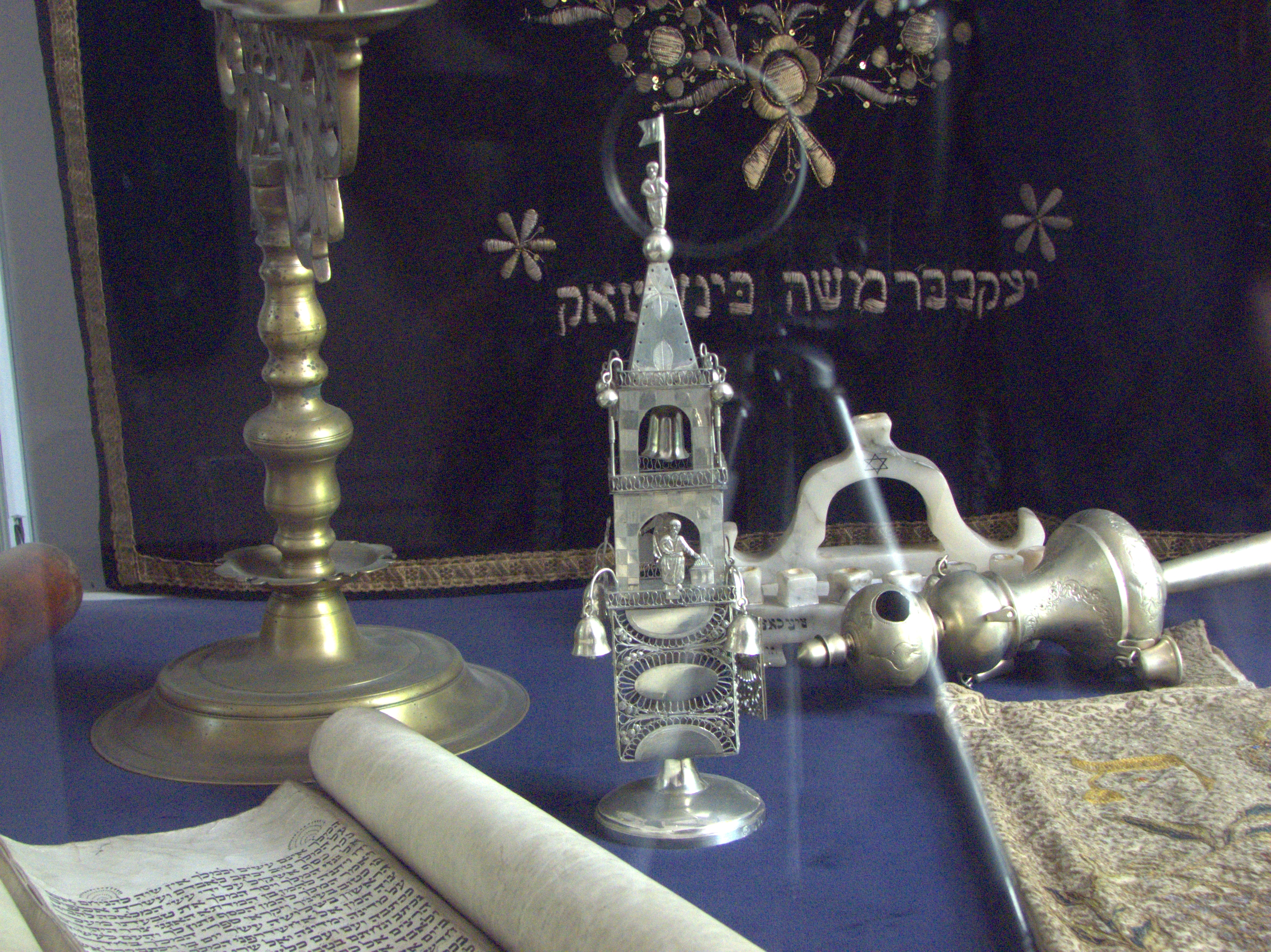 Trip to the Nozyk Synagogue